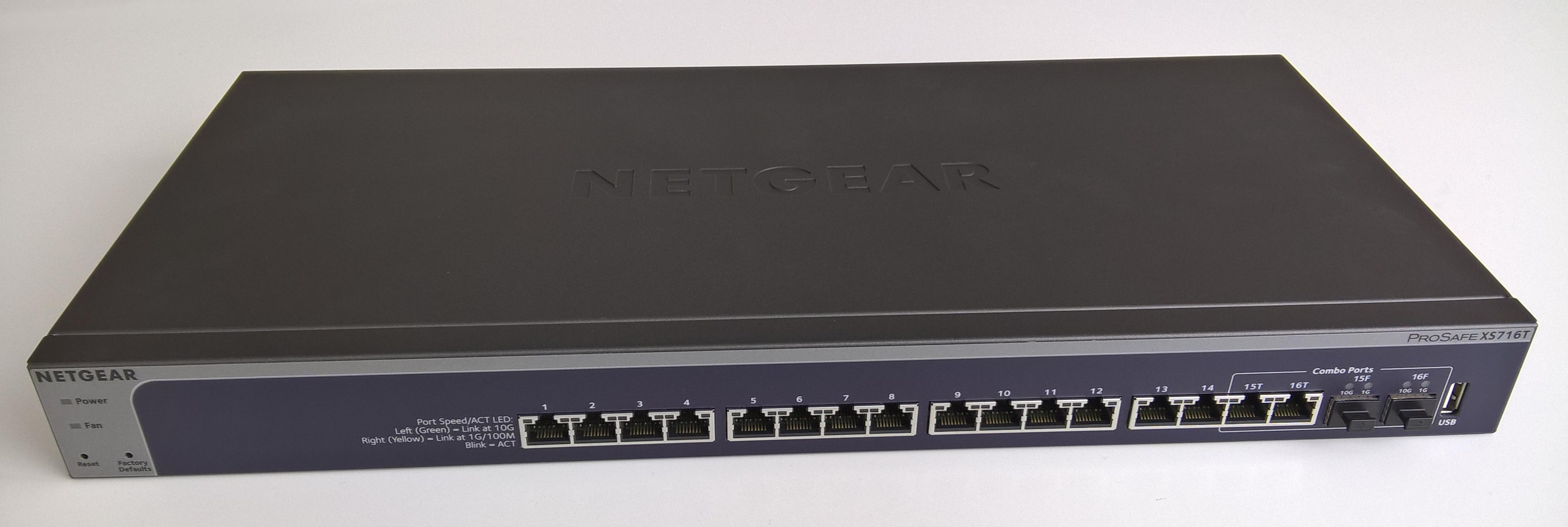 NETGEAR ProSAFE 16-Port 10-Gigabit Smart Managed Switch XS716T